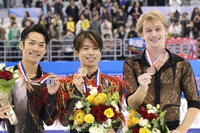 The Mens podium at the 2012 Cup of China. From left: Daisuke Takahashi (2nd), Tatsuki Machida (1st), Sergei Voronov(3rd)